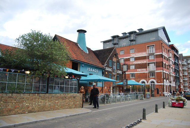 Isaacs Public House, The Waterfront, Ipswich, a former Malt Kiln.